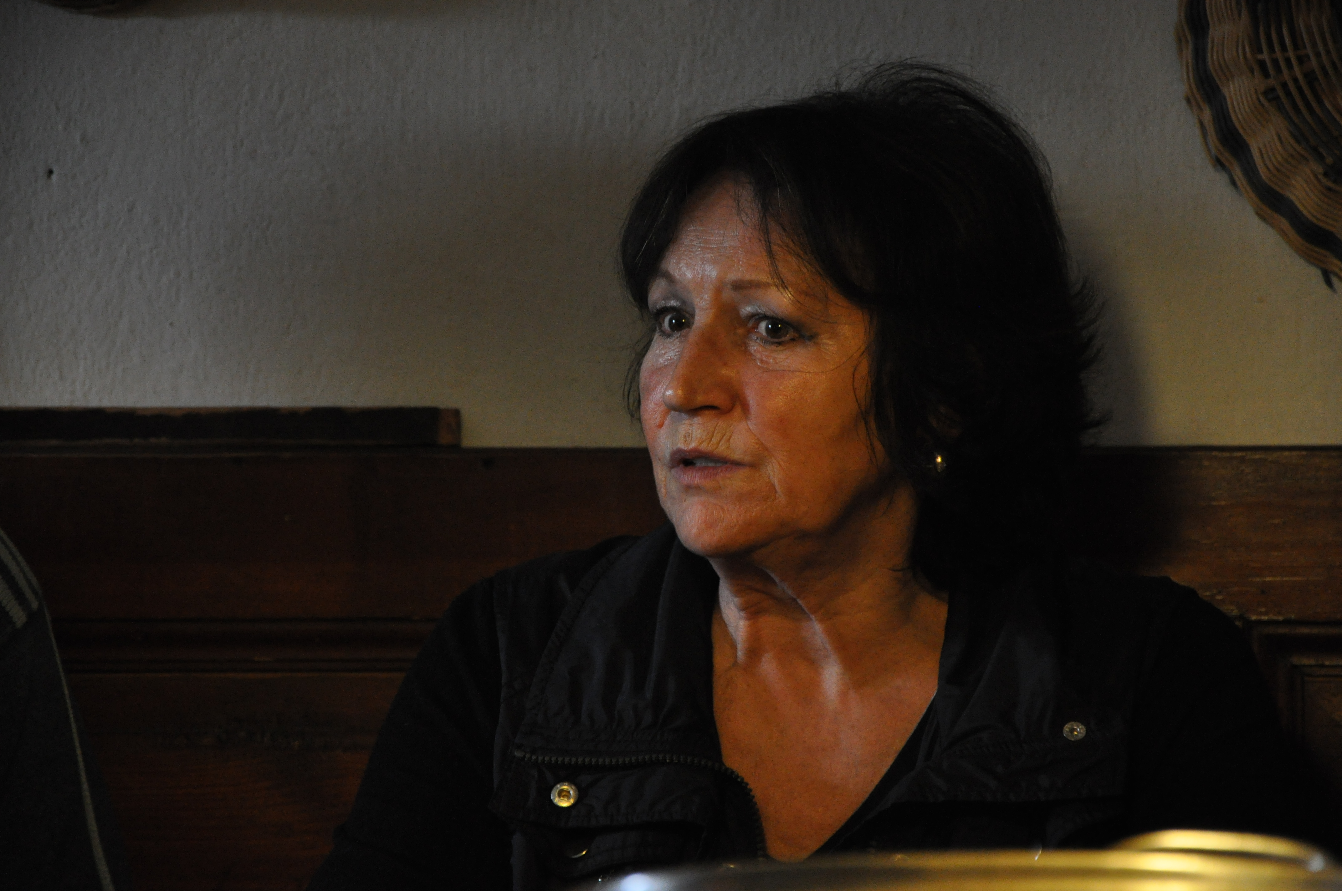 Marta Kubišová